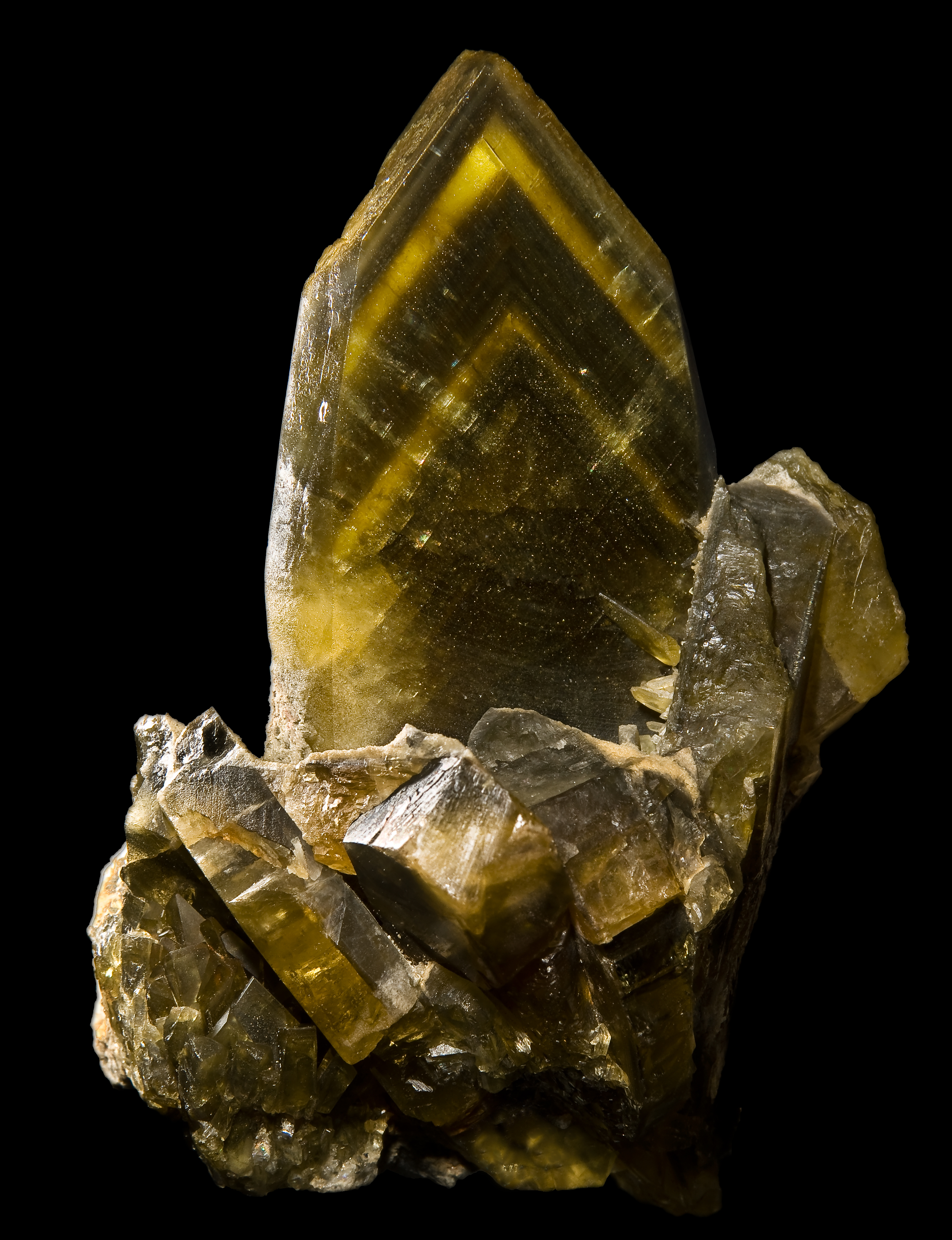 Baryte Locality : Monte Mesu, Villamassargia, Carbonia-Iglesias Province, Sardinia, Italy Size :9x6x3cm